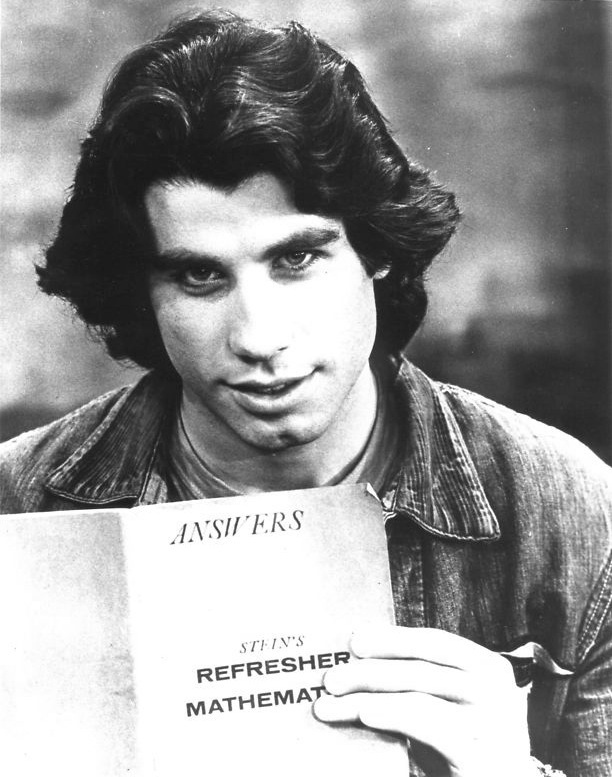 Publicity photo of American actor John Travolta promoting his role on the ABC television series Welcome Back, Kotter.